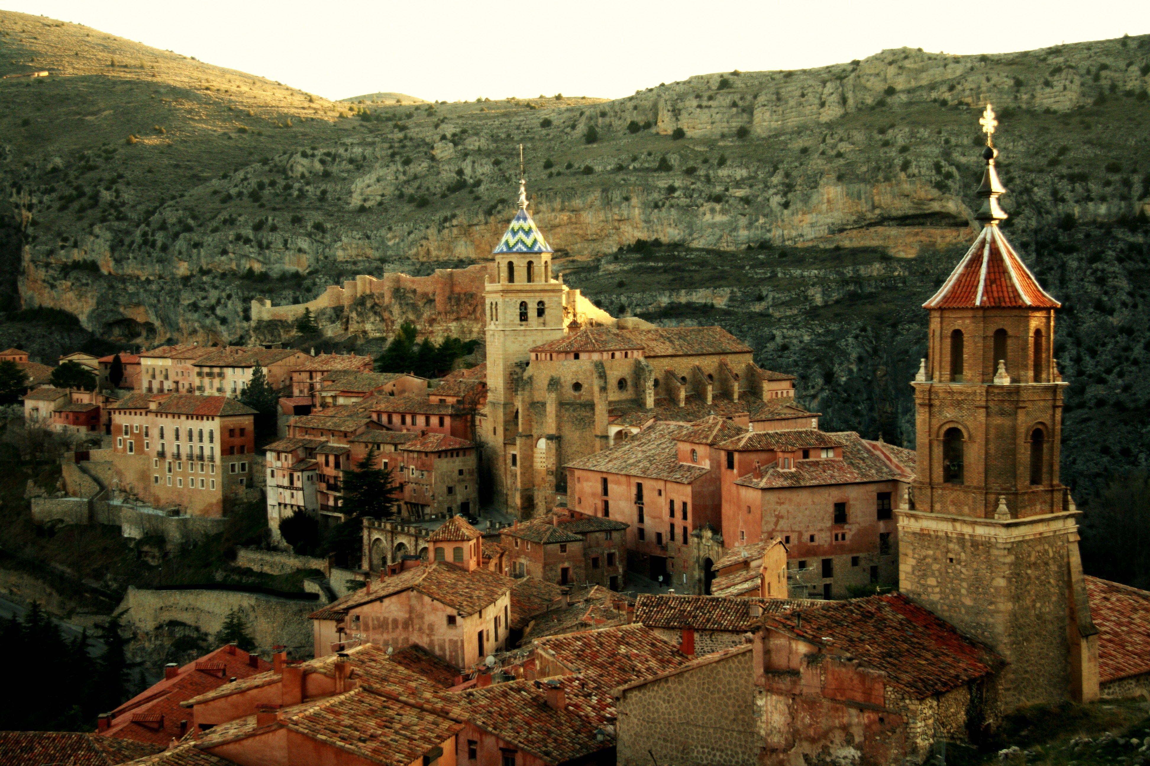 the town of Albarracin tucked away in the spanish mountains